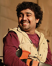 Abhijith P S Nair